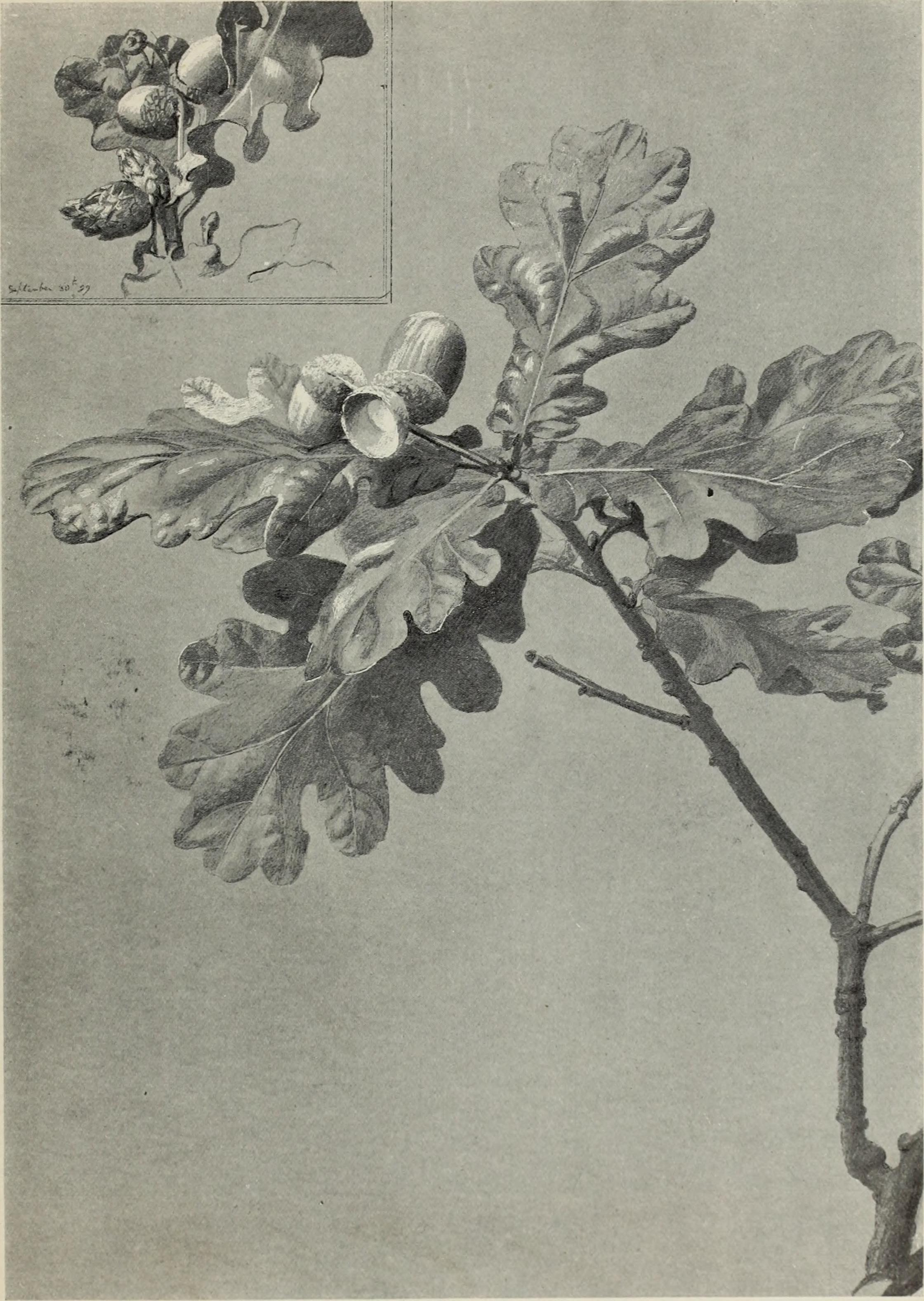 Title: International Studio an Illustrated Magazine of Fine and Applied Art Year: 1908 (1900s) Authors: Subjects: Publisher: New York. John Lane Co Text Appearing Before Image: STUDY OF OAK TWIGS IN SPRING BY REX VICAT COLE Text Appearing After Image: STUDY OF OAK LEAVES ANDACORNS. BY REX \ICAT COLE